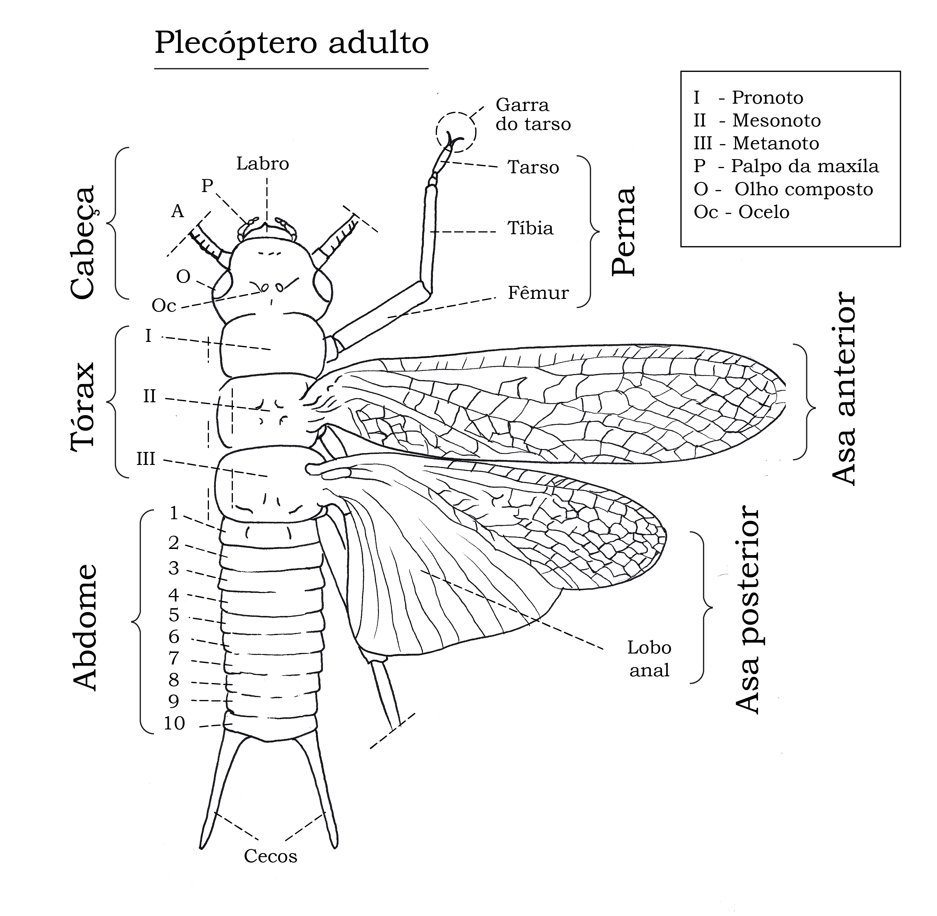 Morphology of an adult stonefly (Plecoptera)